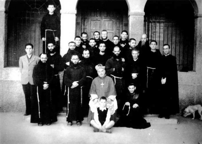 don baronio e padre guglielmo gattiani con il terz'ordine francescano a cesena.